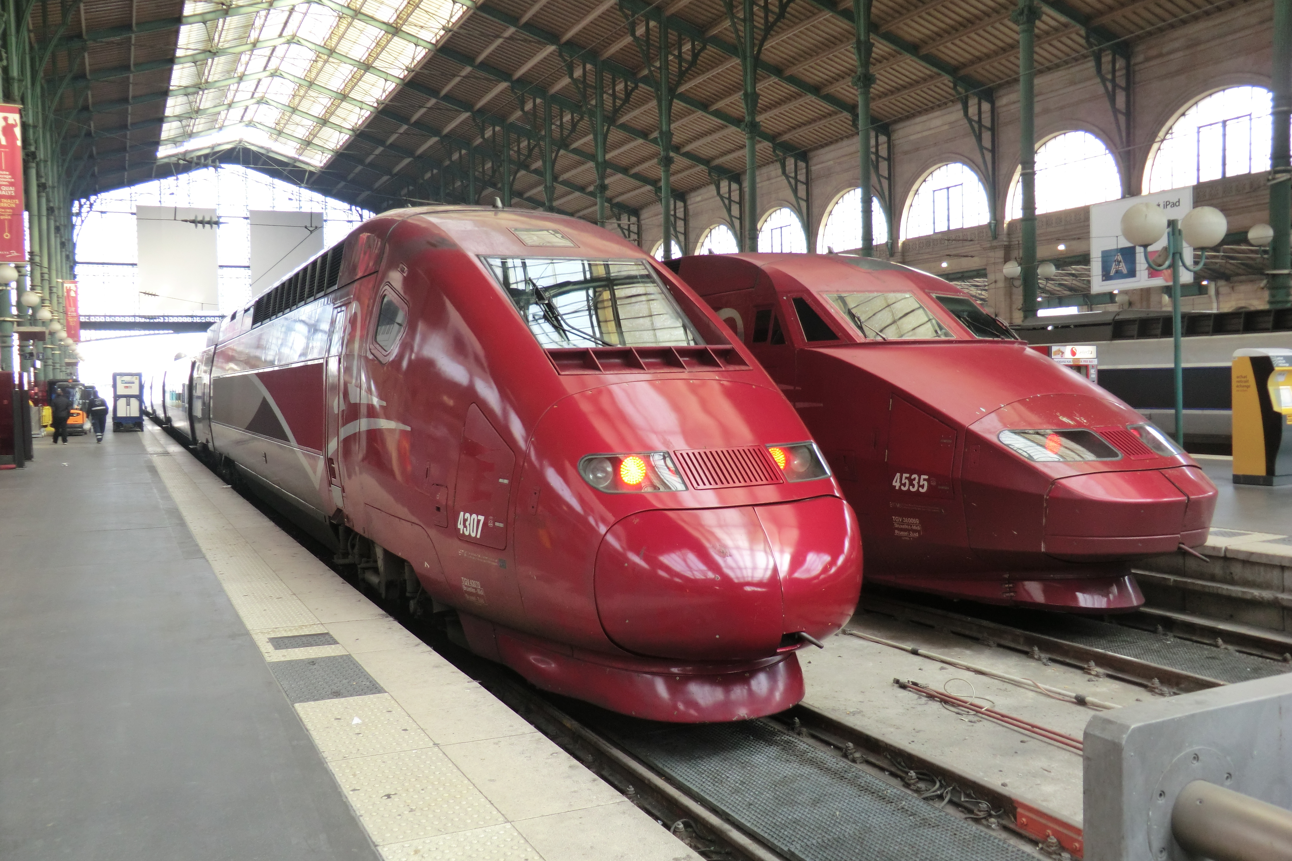 Two generations of Thalys Alstom trains